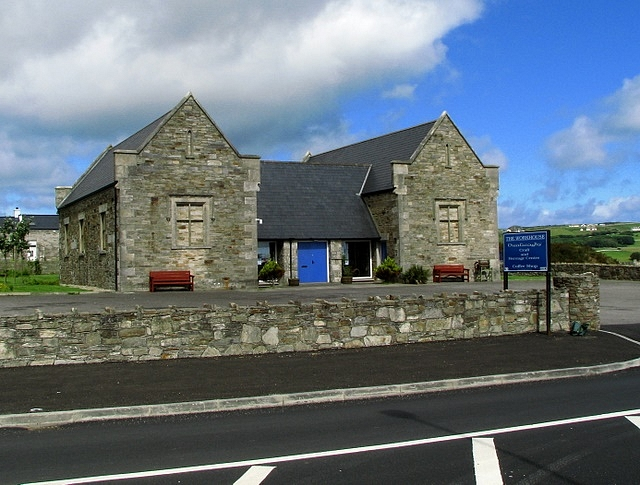 Dunfanaghy Workhouse. Note the Google maps here are useless. Please refer to OSI Discovery Series Sheet 2 from which all accurate grid references have been made. Last refuge of the destitute poor, Dunfanaghy Workhouse was constructed and opened in 1845. Originally designed to house around 300, at the height of the famine the Workhouse had up to 600 men, women and children packed into the cramped conditions. What remains today is only a small part of the original building, the rest having been demolished, and contains a museum, gift shop and coffee shop. for more information. A tour of the workhouse told through the true-life narrative of 'Wee' Hannah Herrity who stayed here around 1855 gives an idea of what the terrible conditions were like.